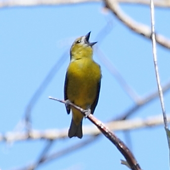 White-lored Euphonia at Novo Mundo - MT - Brazil